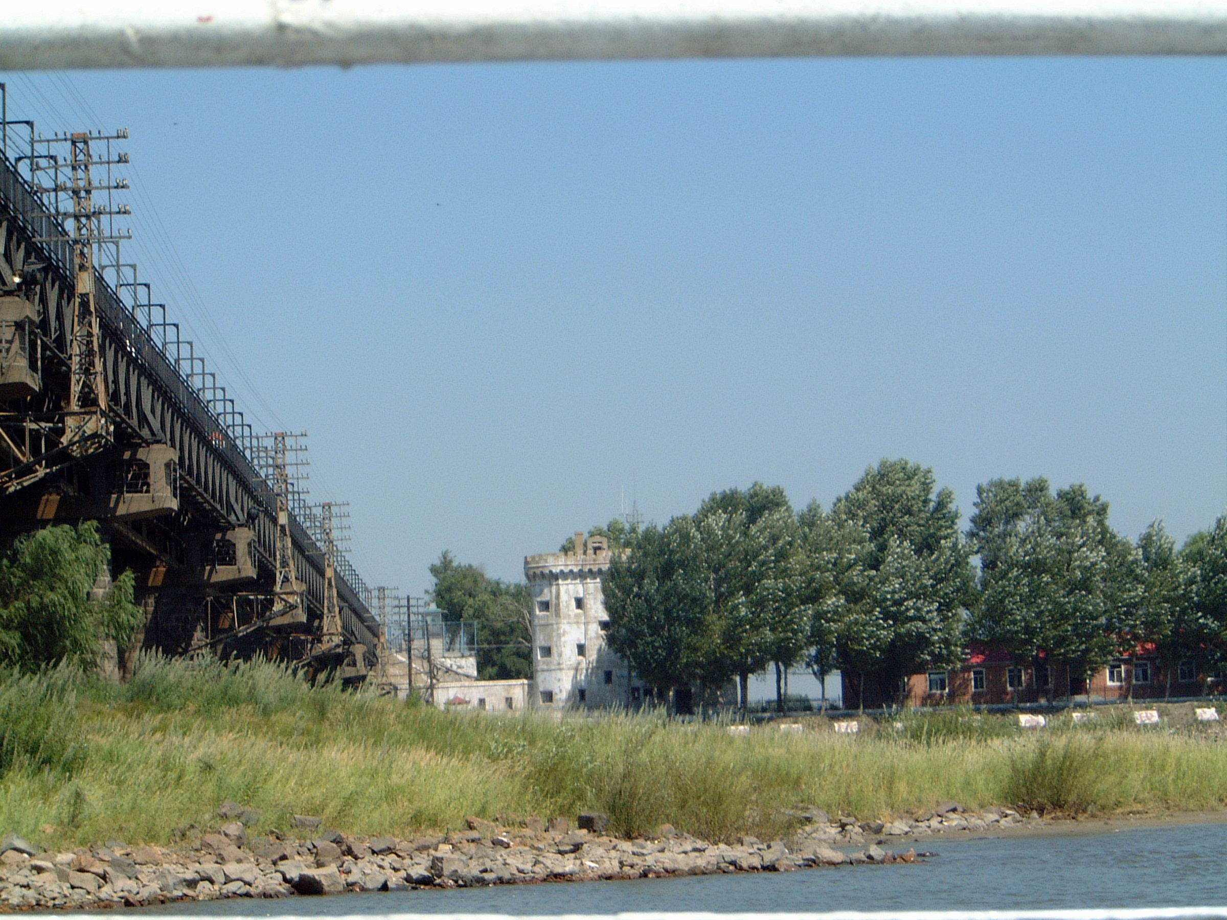 A Japanese fortress along Songhua River